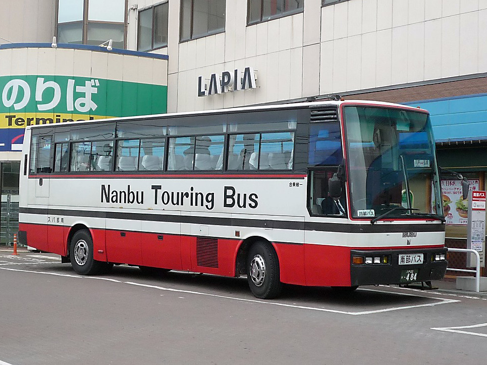 Nanbu bus Highway bus "Nankaru"(Hachinohe-Hirosaki),Isuzu super cruiser.